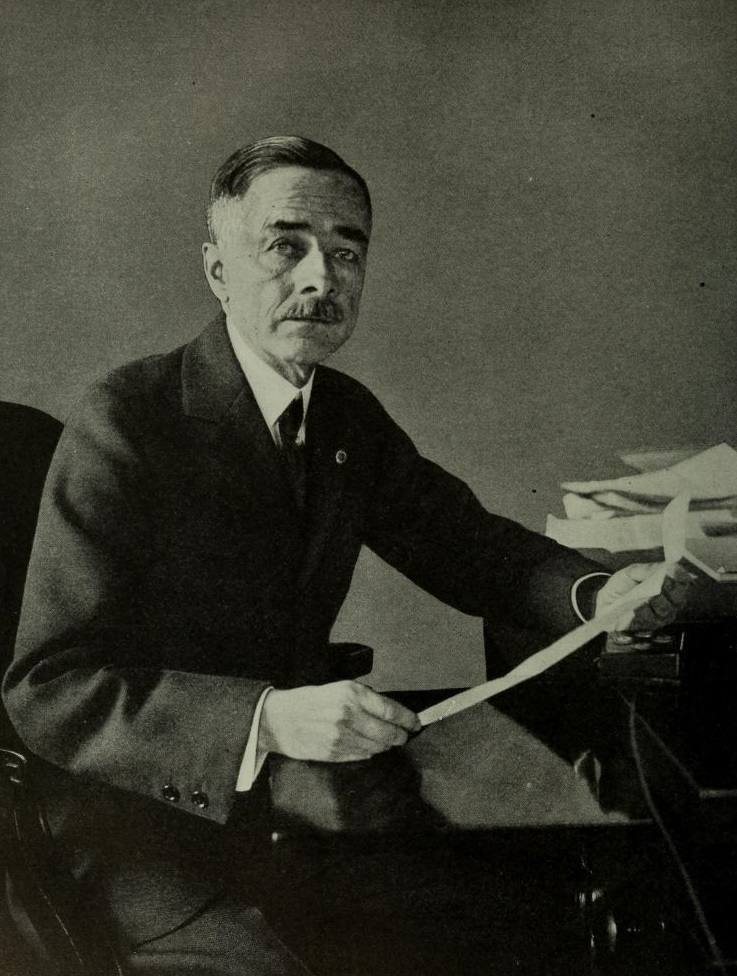 Portrait of John J. Carty